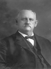 Thetus W. Sims, US Representative from Tennessee